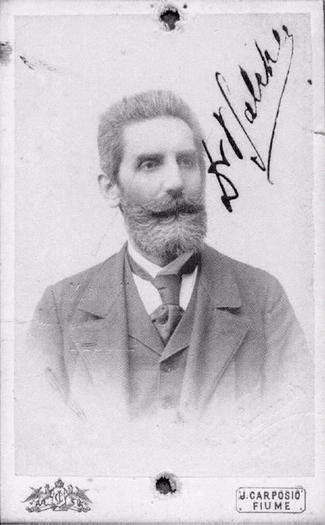 Portrait of Peter Salcher in 1890; an Austrian photograph (1848-1928); in 1886 working for the physicist Ernst Mach first take the photographs of bullets in flight